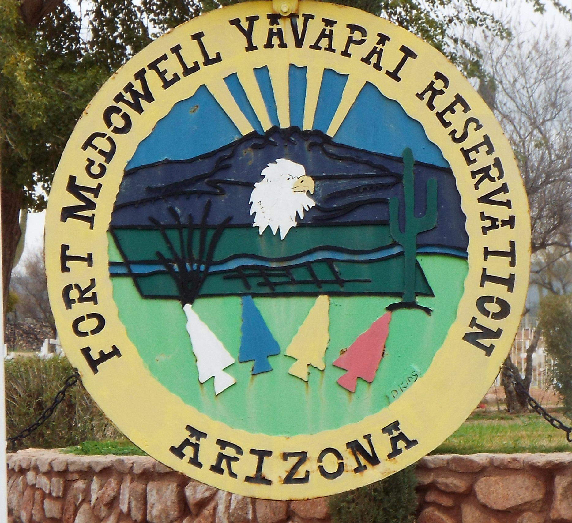 Fort McDowell Yavapai Reservation Seal